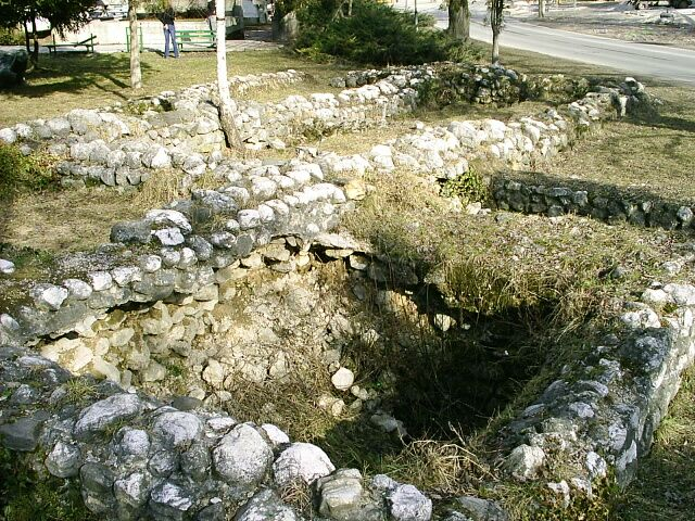 Village of Turbe near Travnik, Bosnia-Herzegovina